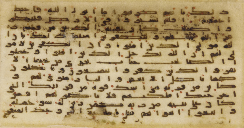 Folio from a Koran, Sura 47, verses 9-15 Ink and opaque watercolor on parchment H: 4.8 W: 8.4 cm Probably Northern Africa Purchase, S1997.42